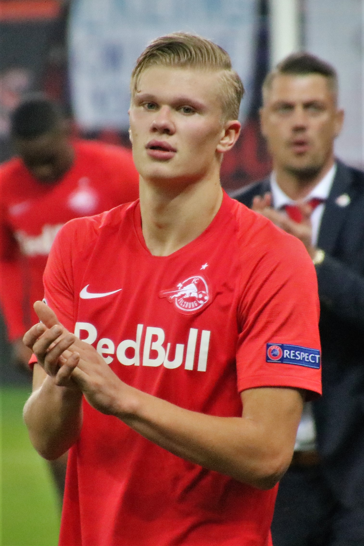 3rd round UEFA Champions League